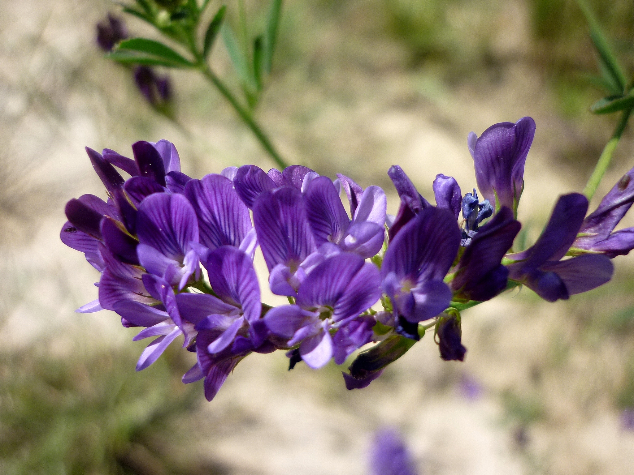 Medicago sativa. In Torà (Segarra-Catalunya). To 447 m. altitude